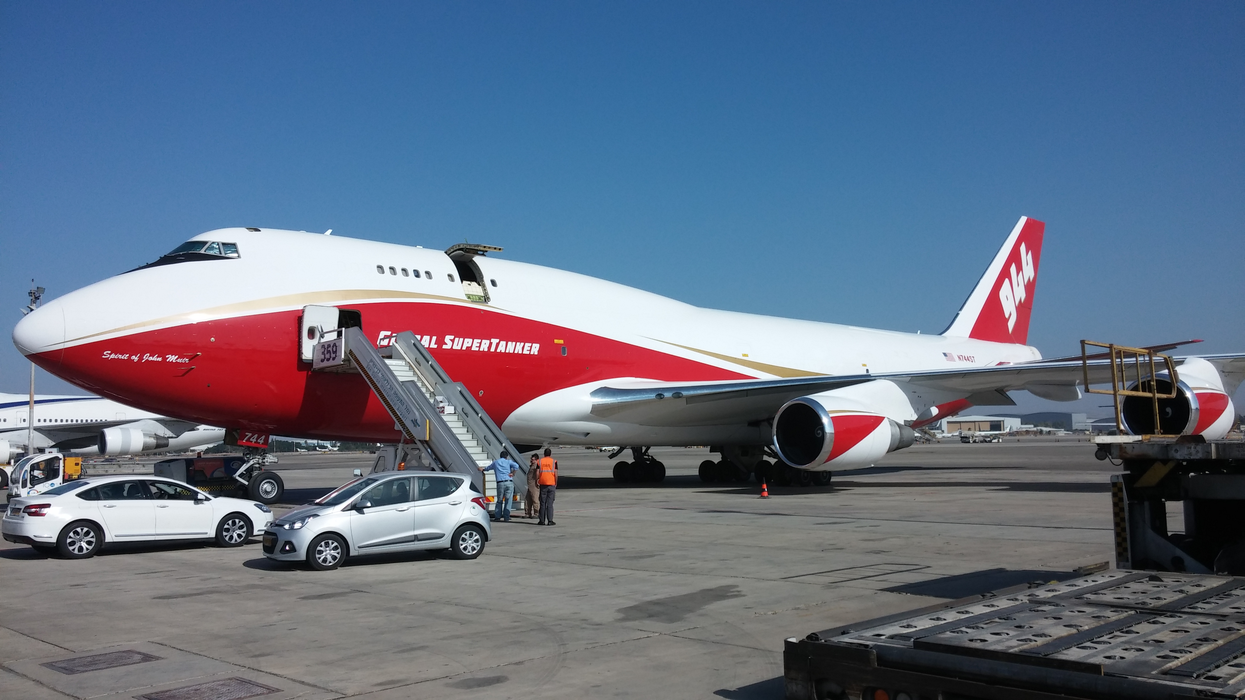 Global Supertanker